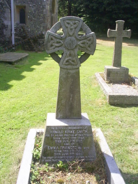 Gravestone in St Peter's parish churchyard, Boxworth, Cambridgeshire, of Rev. Arnold Kirke Smith, who was Rector for 38 years until his death in 1927